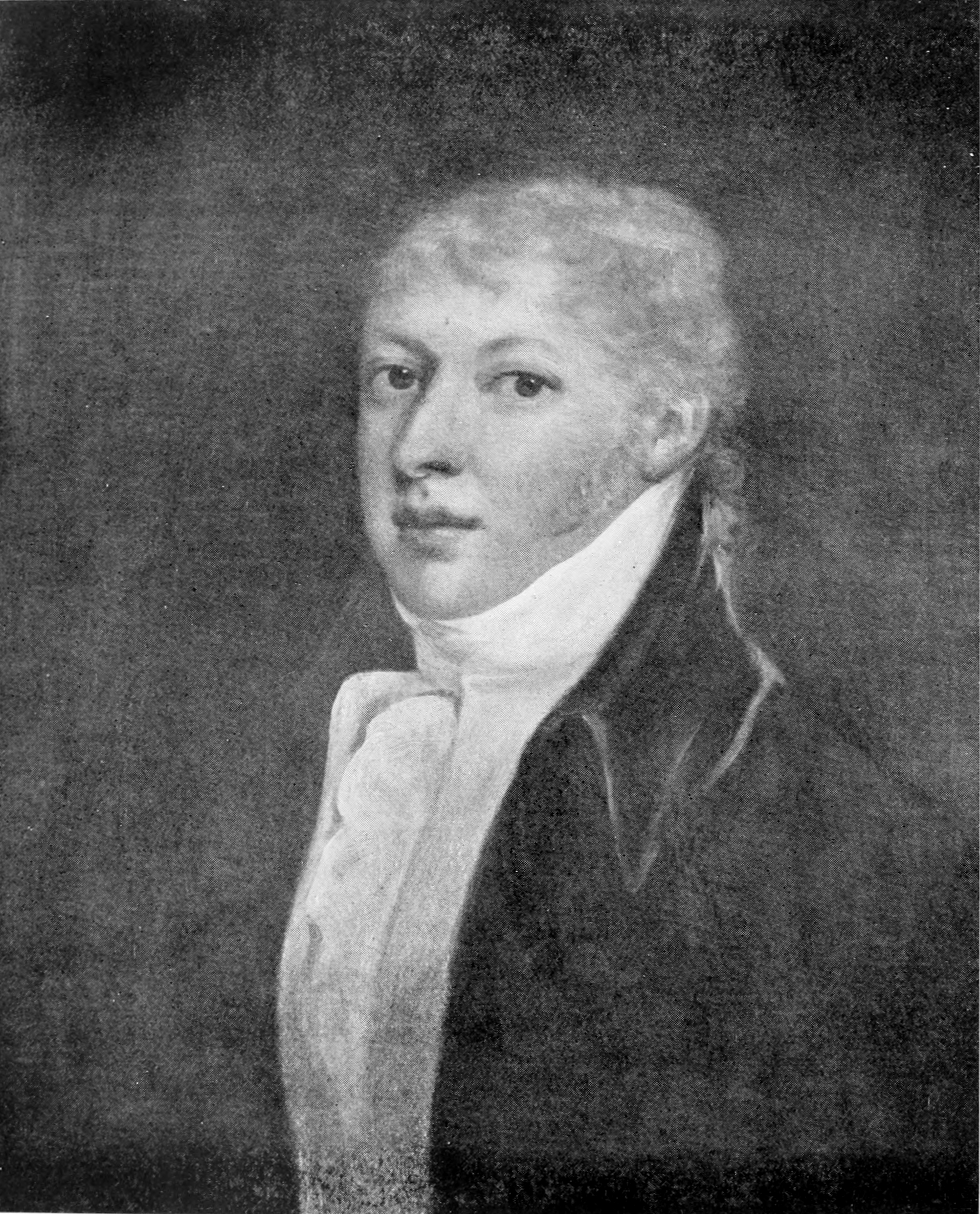 Plate 20 from Makers of British botany (1913), depicting Henry Witham (1779–1844).